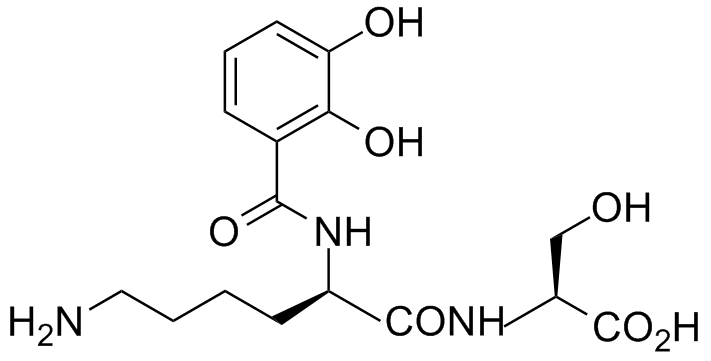 Chrysobactin.png